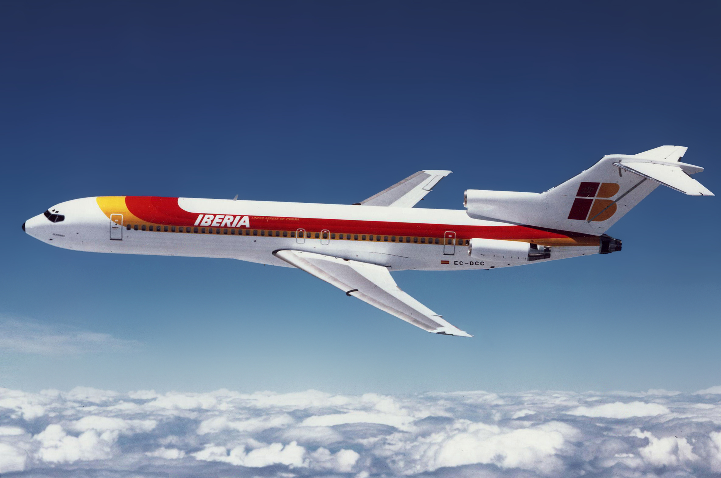 EC-GCM (cn 20606/937)